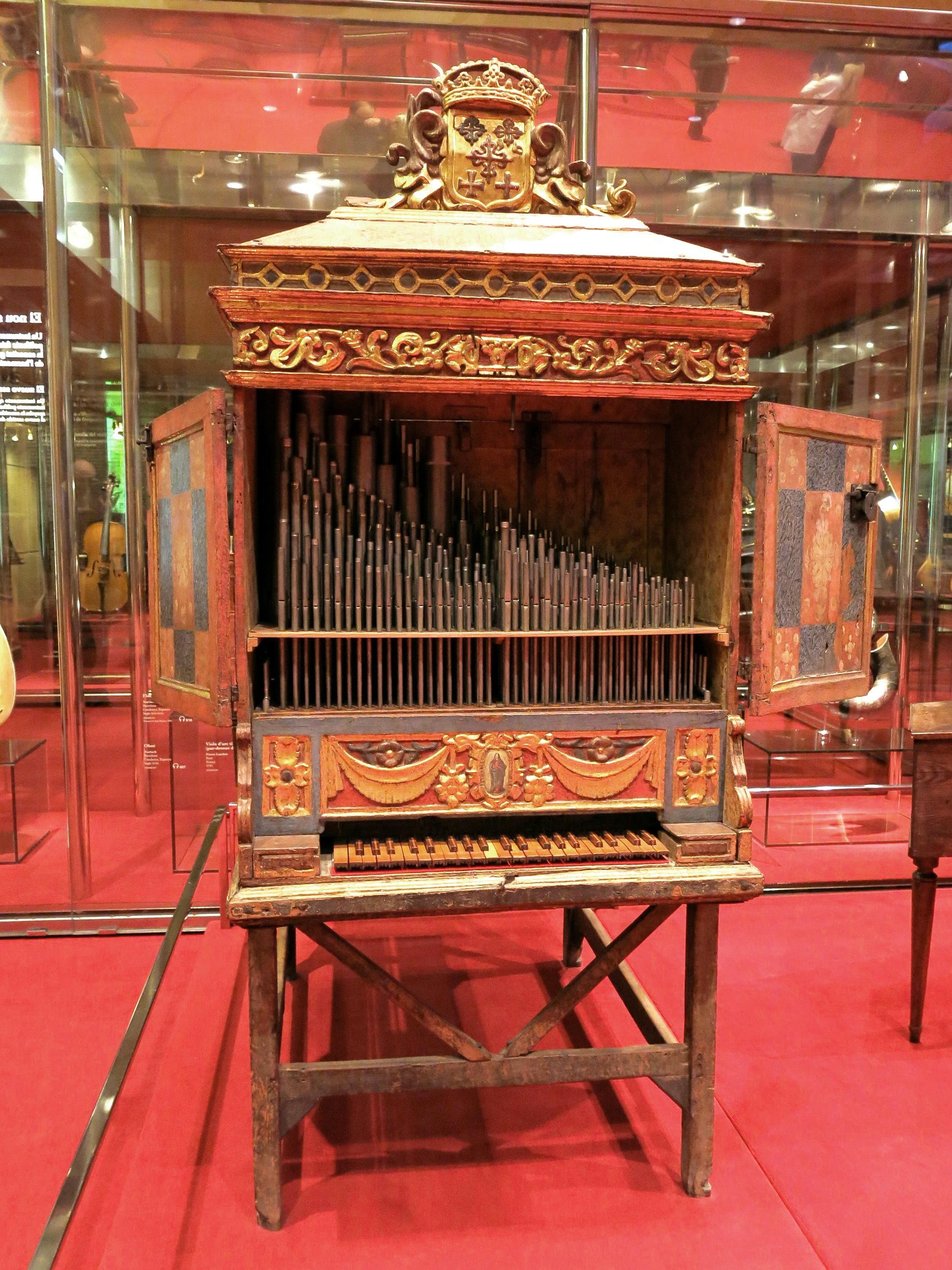 Organ, 2nd half of 17c. MDMB 592: Orgue, 2a meitat segle XVII